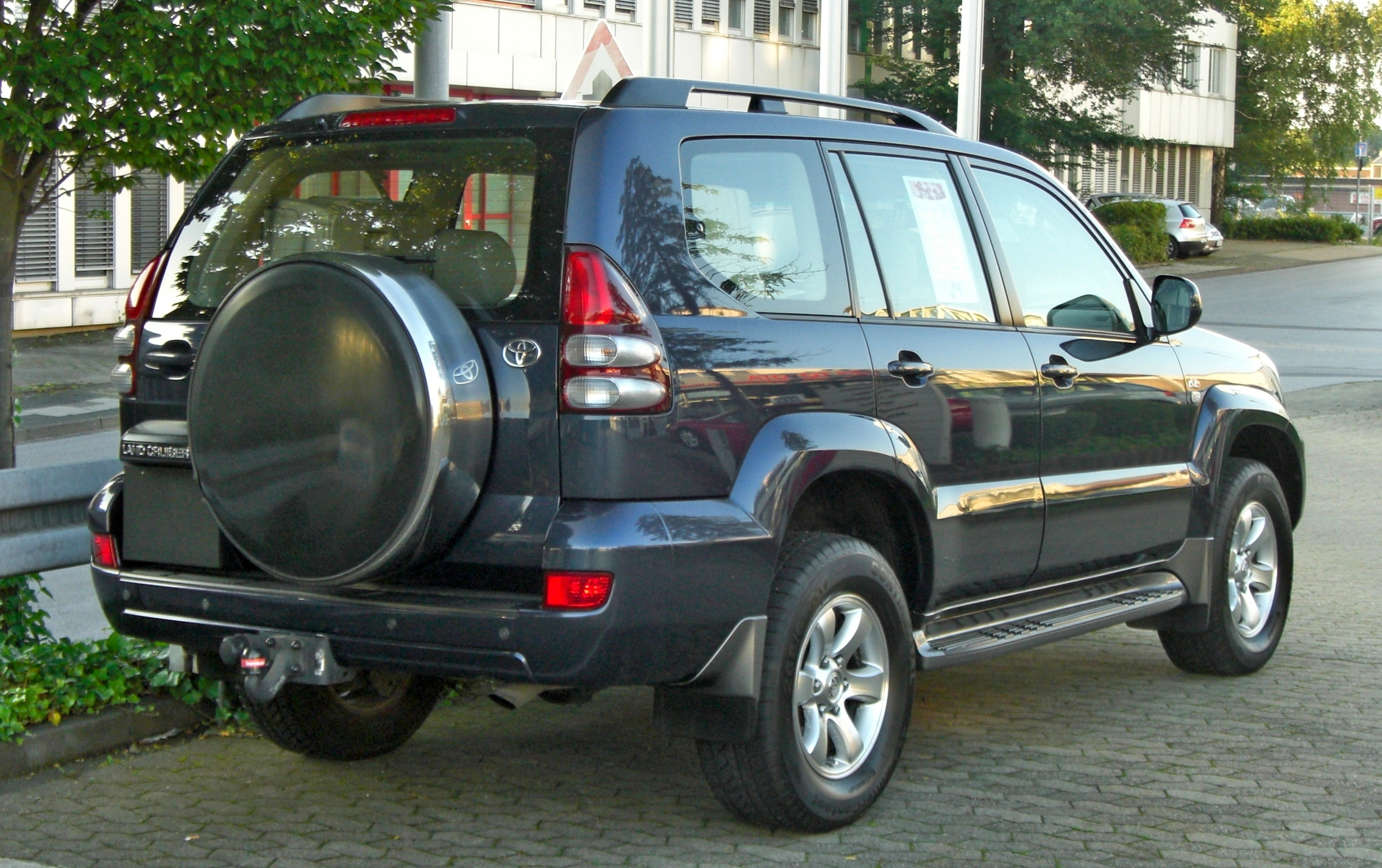 Toyota Land Cruiser 120